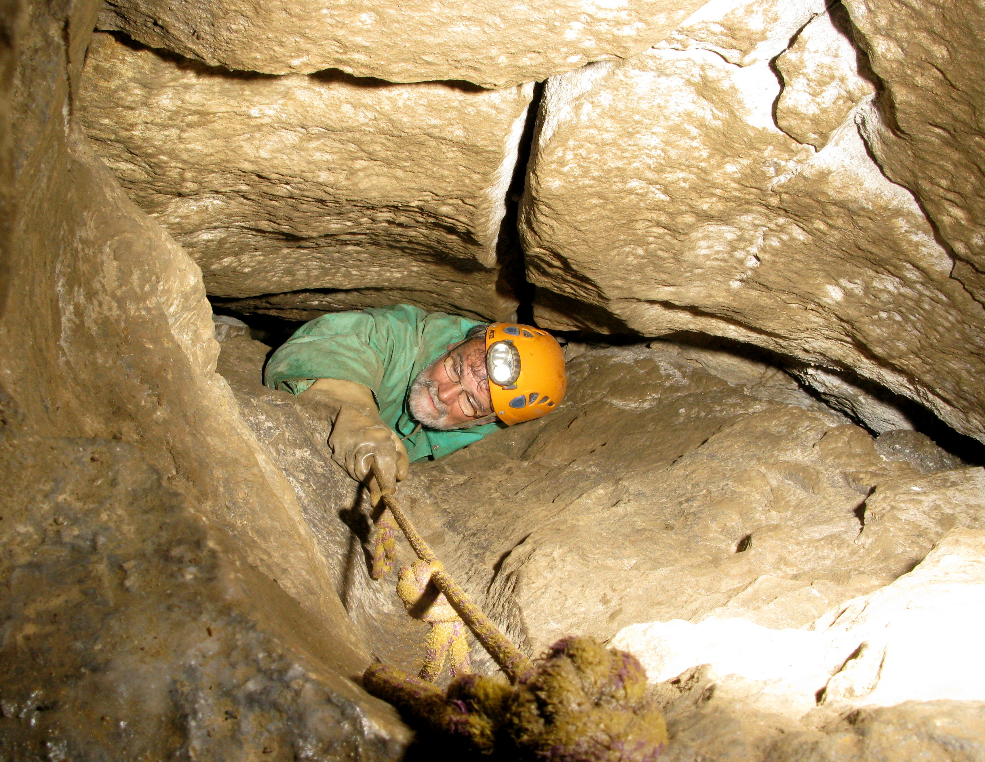 Tony Brown, Northern Boggarts, negotiating the vertical squeeze known as the Molestrangler near the entrance of Stile Pot, one of the many ways into the Gaping Gill system